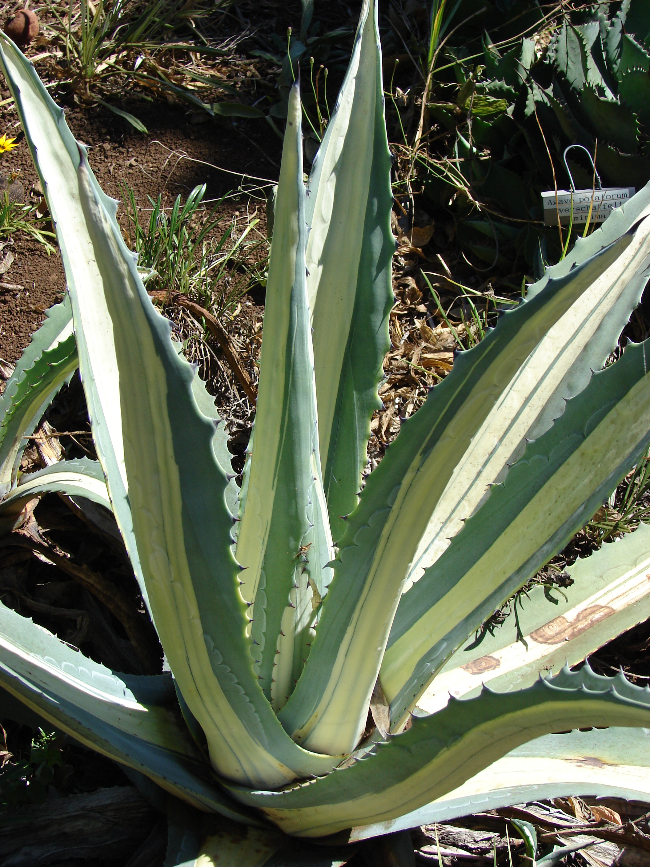 Agave americana (cv mediopicta habit). Location: Maui, Enchanting Floral Gardens of Kula